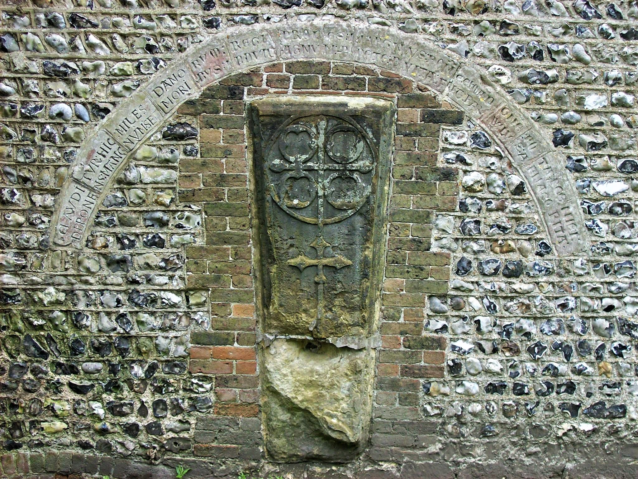 Inscription over anchorite's cell, relocated to east wall of St John-sub-Castro, Lewes.